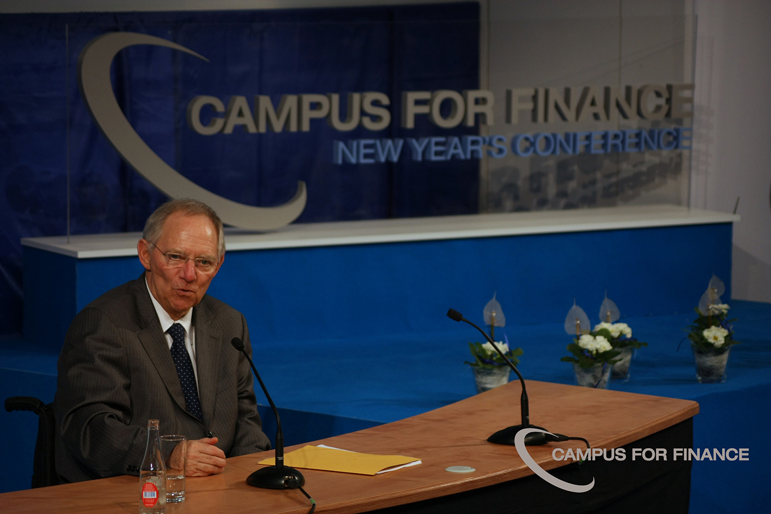 Wolfgang Schäuble holding a speech on the Campus for Finance - WHU New Years Conference 2011.